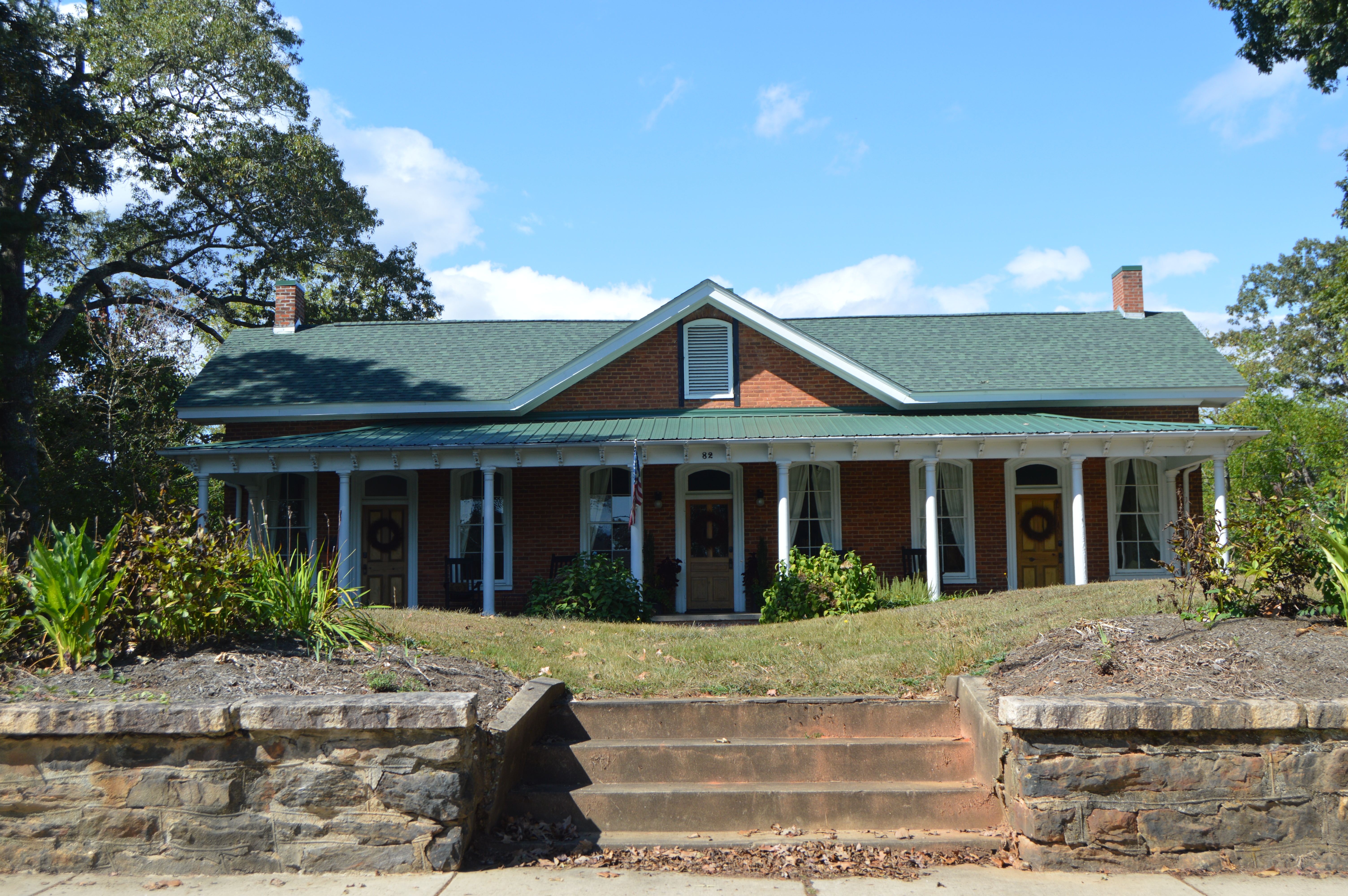 Front of Seven Oaks, located at 82 Westwood Place in Asheville, North Carolina, United States. Built in 1870, it is listed on the National Register of Historic Places.